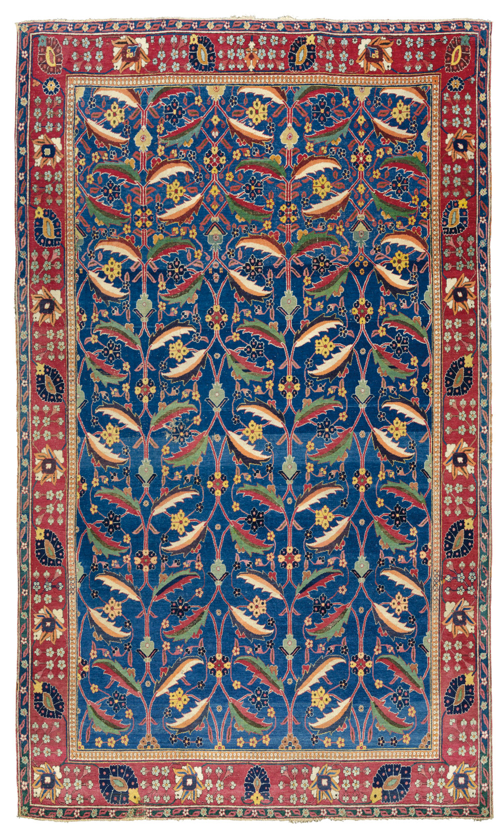 The three – a complete small carpet; a large field and top border section of an enormous fragmented carpet; and the entire field and inner guard border of a mid-size carpet – while each very different in design, are in good colour and condition, having been in storage for many years.They all share the same intriguing provenance in the British branch of the Rothschild banking dynasty: first the socialite Alice de Rothschild (d.1922), sometime chatelaine of Waddesdon Manor in Buckinghamshire; then on to her chosen heir, the British philanthropist and politician James (Jimmy) de Rothschild (who bequeathed Waddesdon and its contents to the National Trust on his death in 1957); and thence by descent, probably via his widow Dorothy (Dolly), who died in 1988, to the present noble consignor. The three vase carpets were evidently not part of the Waddesdon Bequest, and were likely to have been kept, if not much seen, in another Rothschild family home in the Vale of Aylesbury, perhaps Alice and later Dolly’s nearby property at Eythrope. Unfortunately, no documentation concerning Alice’s acquisition of the carpets, or their prior provenance, survives. The first of the trio, complete with just minor damage, is assigned to the late 17th century. Not altogether surprisingly estimated at £1,000,000-1,500,000, it is very close in design and colour to the somewhat larger Behague/Augsburg vase carpet, now in Doha, that sold at King Street in April 2010 for what was then a world record price for an oriental carpet at auction of more than $9.5 million; doubtless a catalyst for the current consignment (HALI 164, p.127). It differs only in size, choice of narrow guard borders, and the fact that part way through the beautifully abrashed mid-blue field of the Rothschild rug, the complex articulation of the lancet-leaf lattice becomes elegantly simplified, with less floral infill. 1.51 x 2.51m (5’0” x 8’3”). estimate £1,000,000-1,500,000